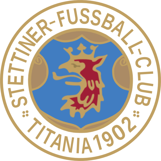 Historical logo of Stettiner FC Titania.